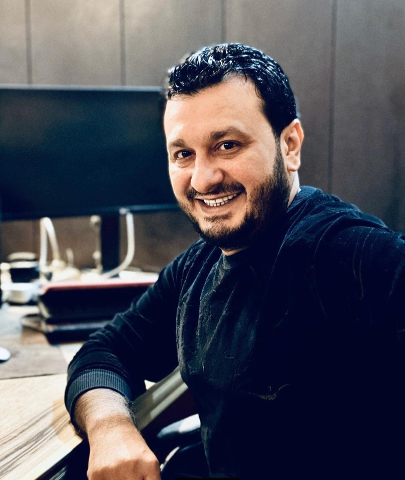 A personal photo of the Iraqi poet Qusay Issa